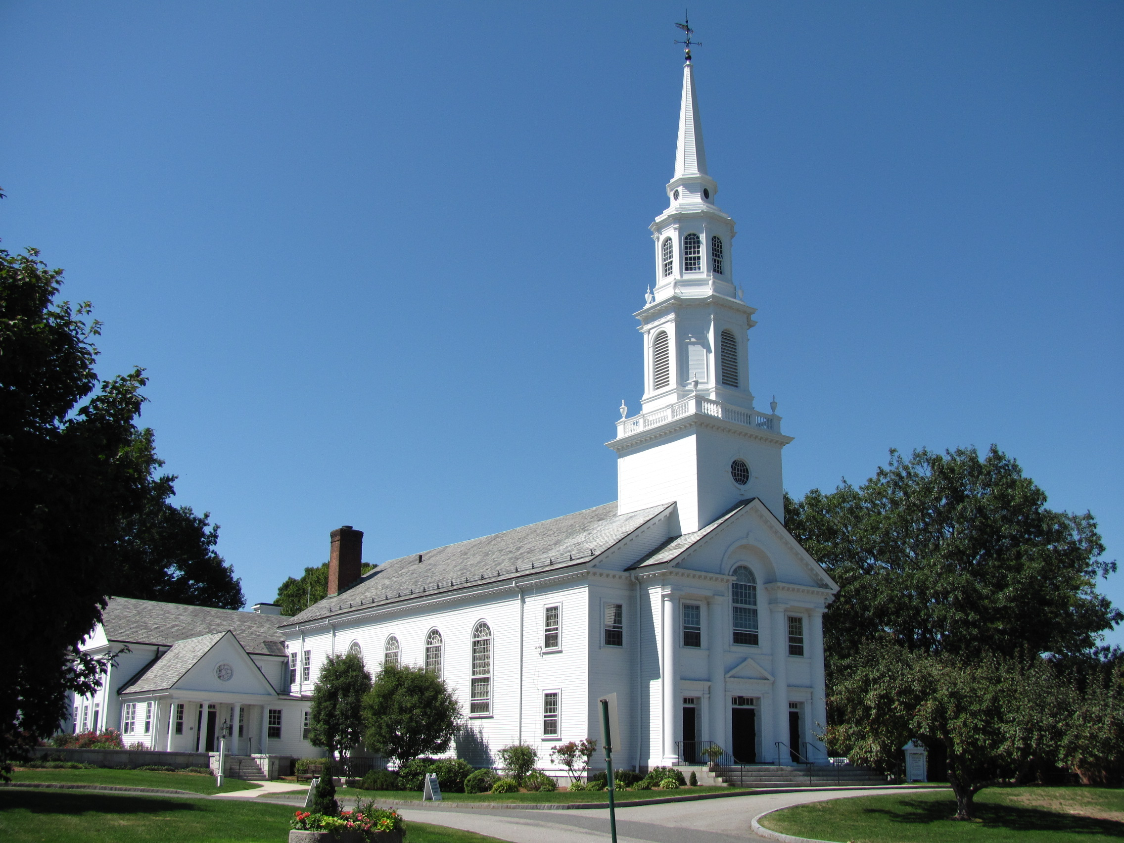 Trinitarian Congregational Church, Concord Massachusetts